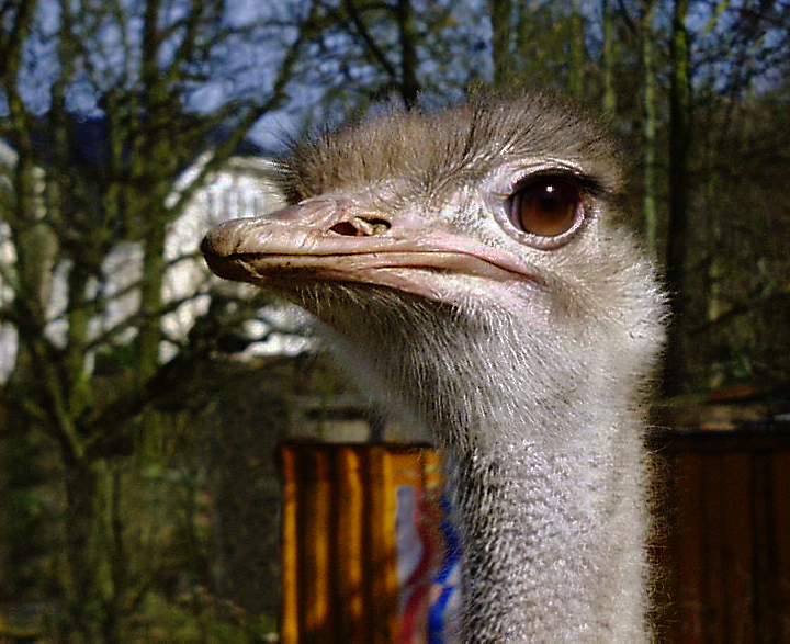 Ostrich (Struthio camelus) seen at Odense Zoo, Denmark.